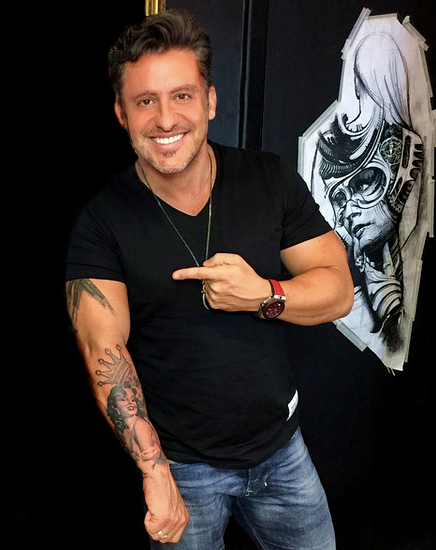 Produtor Rick Bonadio no estúdio Midas Music.